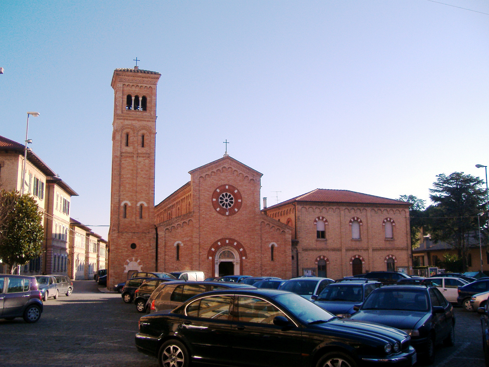 Saint Maron's church, in Civitanova Marche — Province of Macerata), Marche, eastern central Italy.